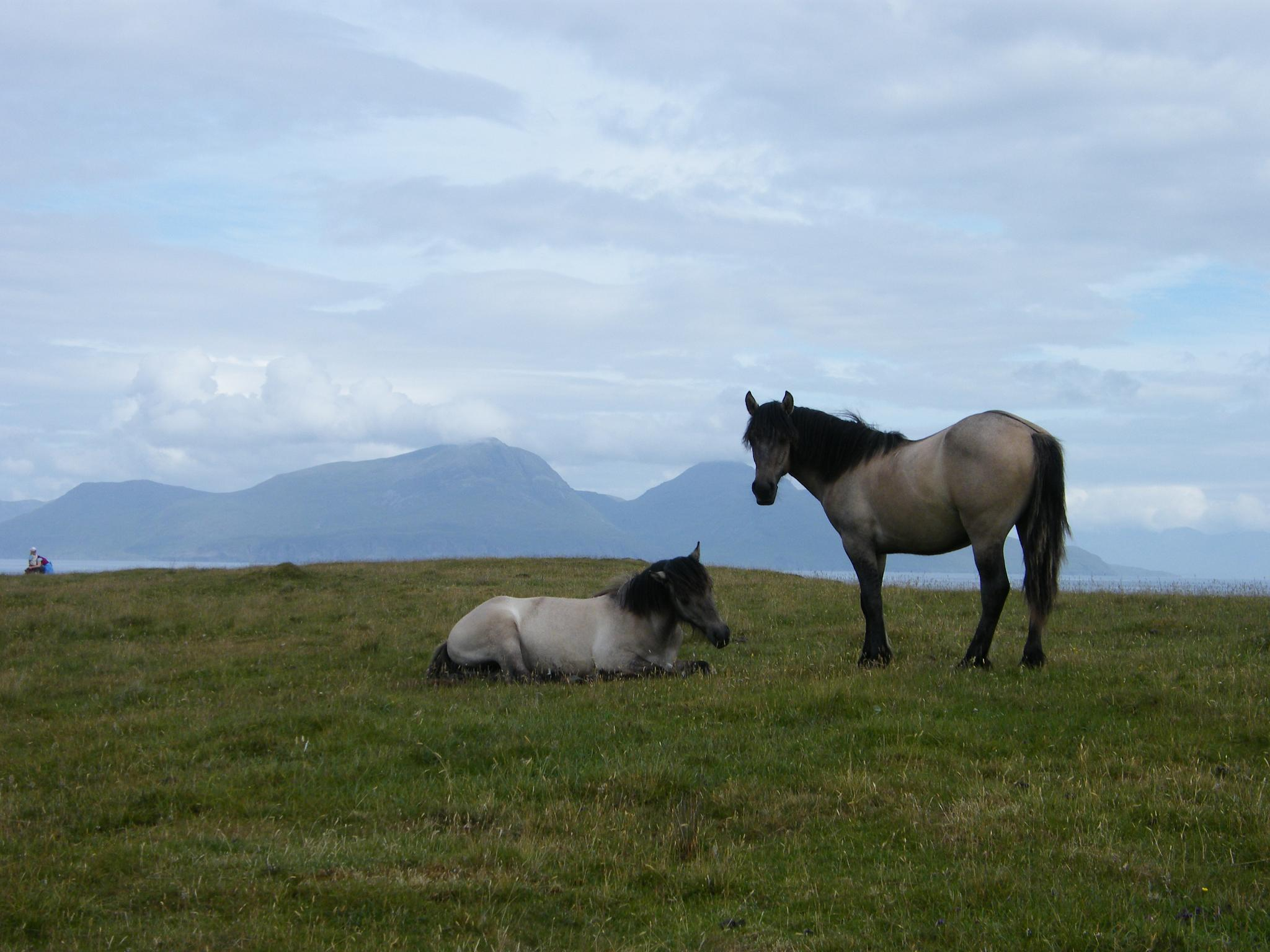 Highland Pony